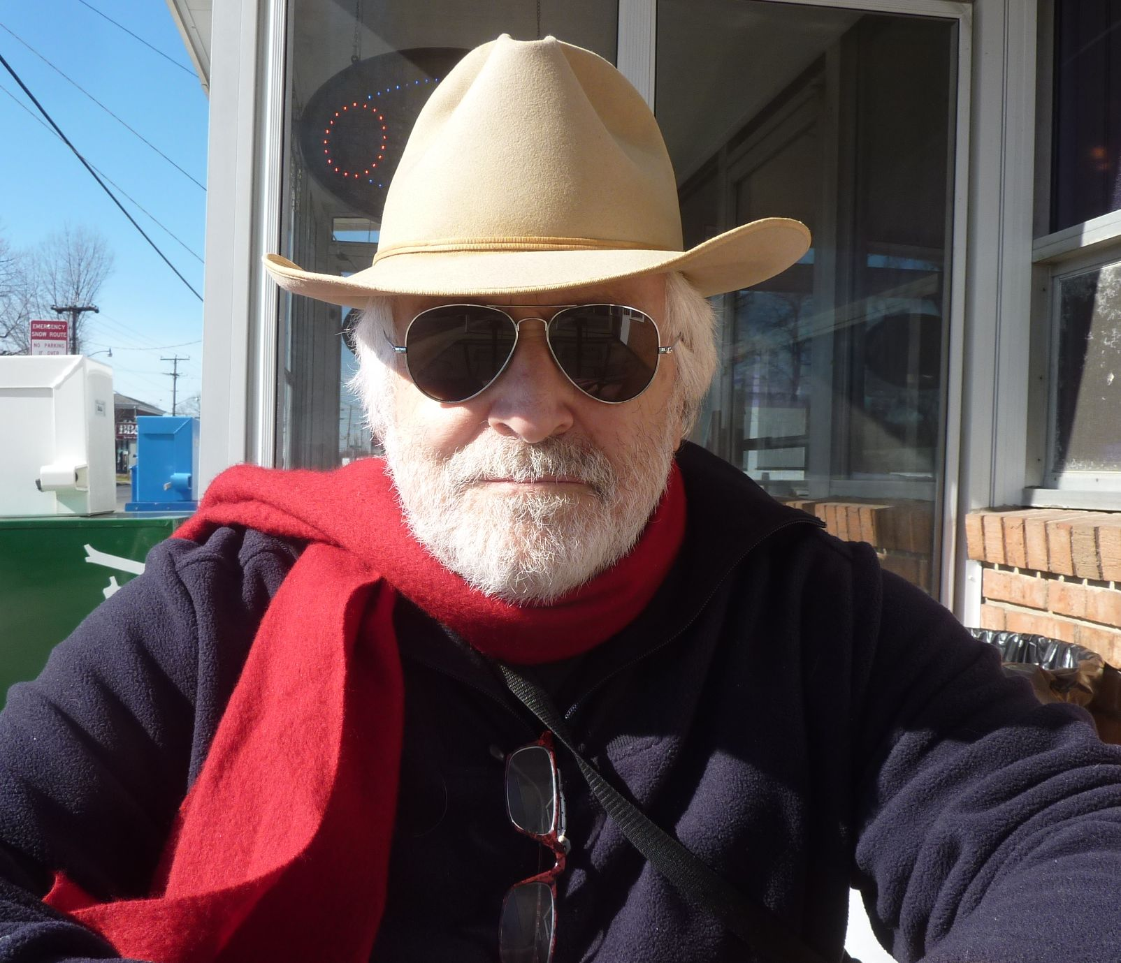 Henryk M. Broder